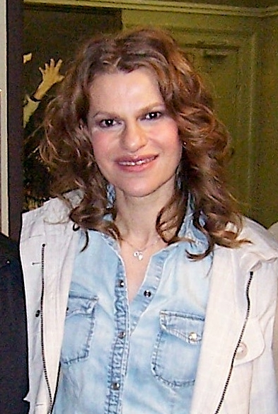 Sandra Bernhard at Daryl Roth Theatre New York.